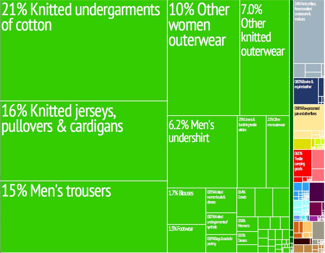 Export Trading Treemap. From MIT/Harvard Atlas of Economic Complexity